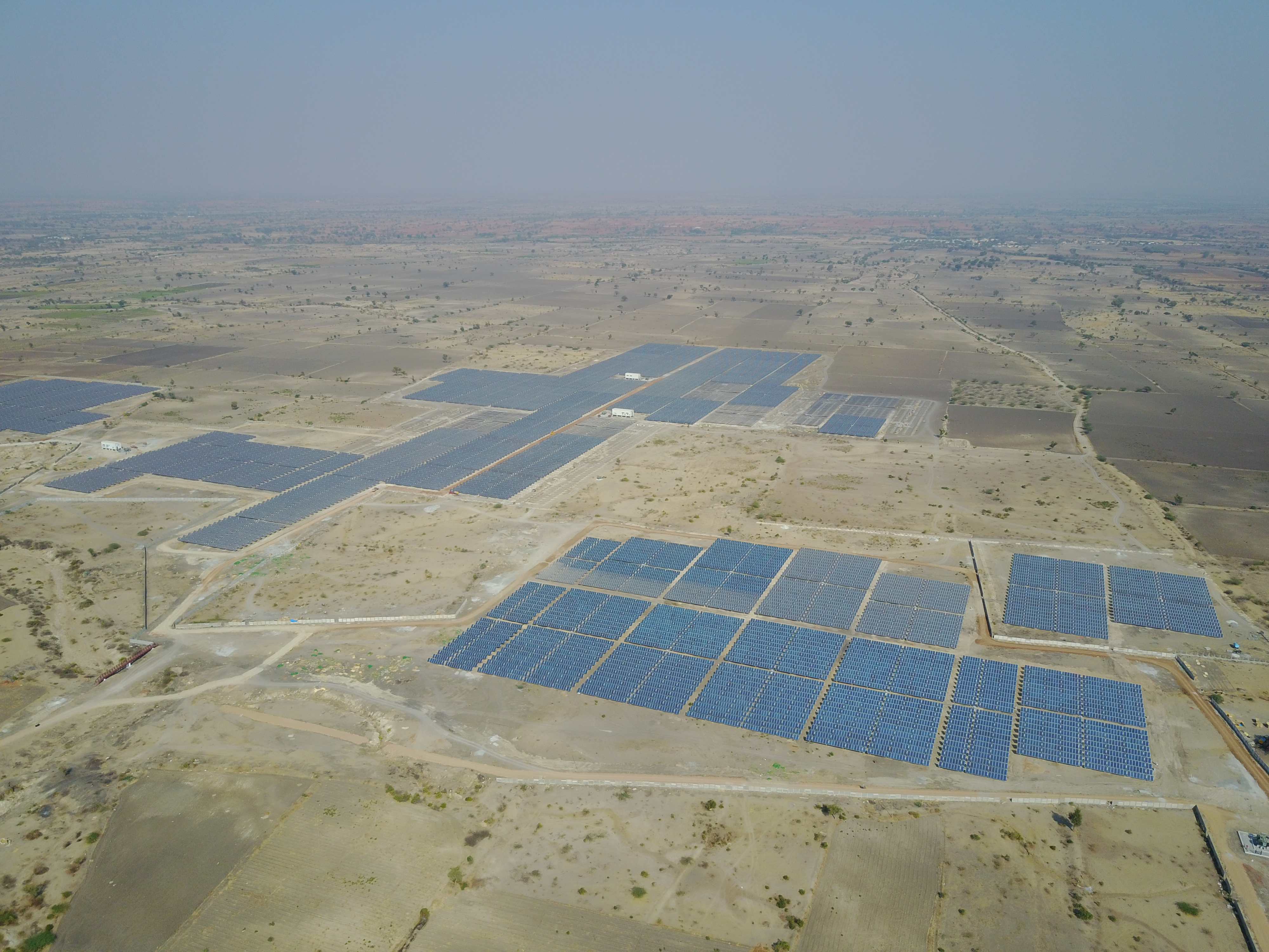 Largest single axis tracker project in Asia at a single location.